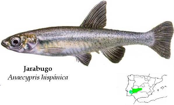 Jarabugo (Spanish) Sarabugo (Portuguese) Prepared by the author after a picture from a Junta Extremadura catalog